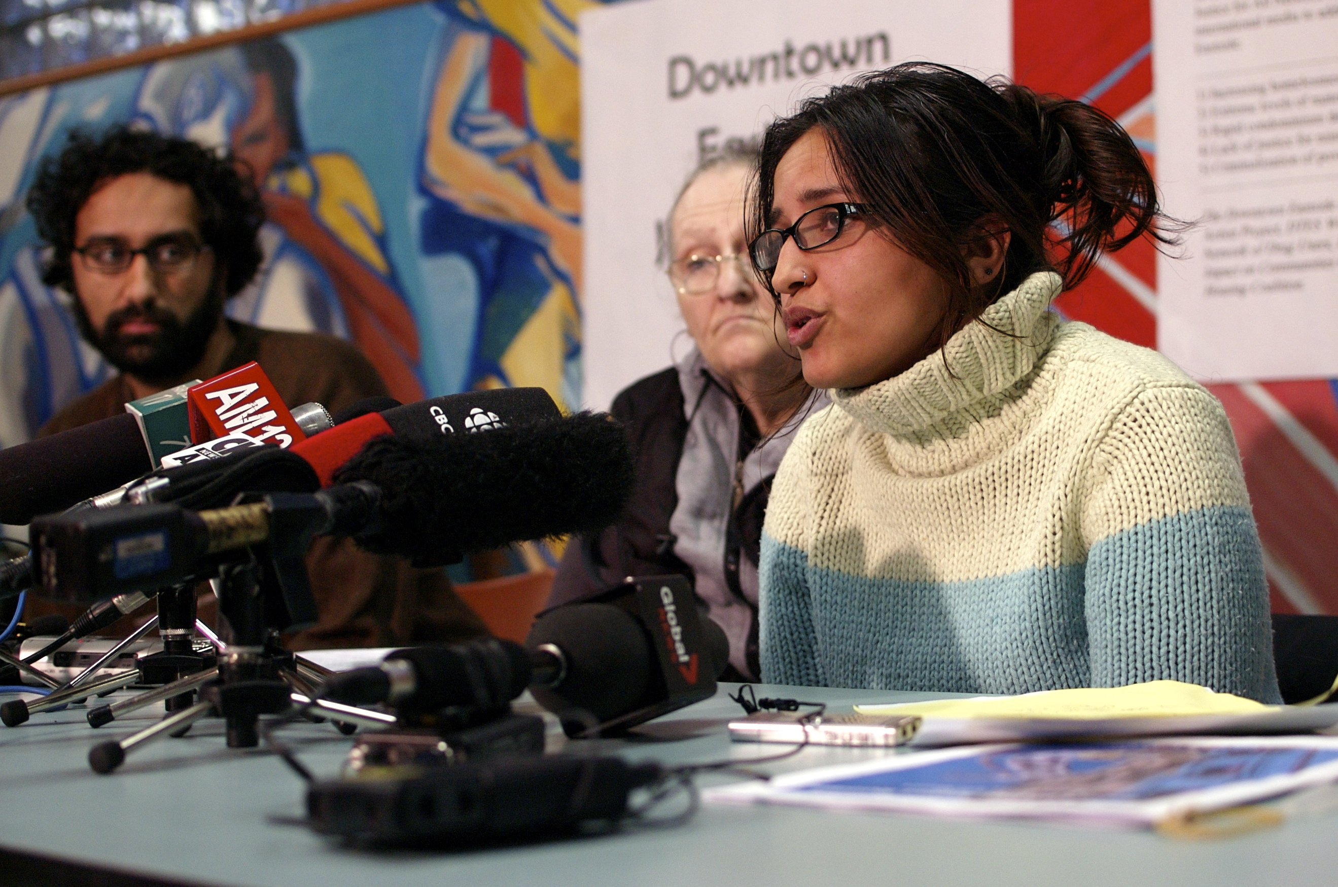 Downtown Eastside Group Demands “Prorogue the Olympics” Jan. 12th 2010 In anticipation of the upcoming 2010 Olympic Winter Games, the Downtown Eastside Justice for All Network calls on all levels of government, members of society, and international media to address the persistent issues facing residents of the Downtown Eastside: 1.Increasing homelessness and lack of adequate, safe and affordable housing 2.Extreme levels of material poverty 3.Rapid condominium development and gentrification 4.Lack of justice for missing and murdered women 5.Criminalization of poverty through ticketing campaigns and police crackdowns